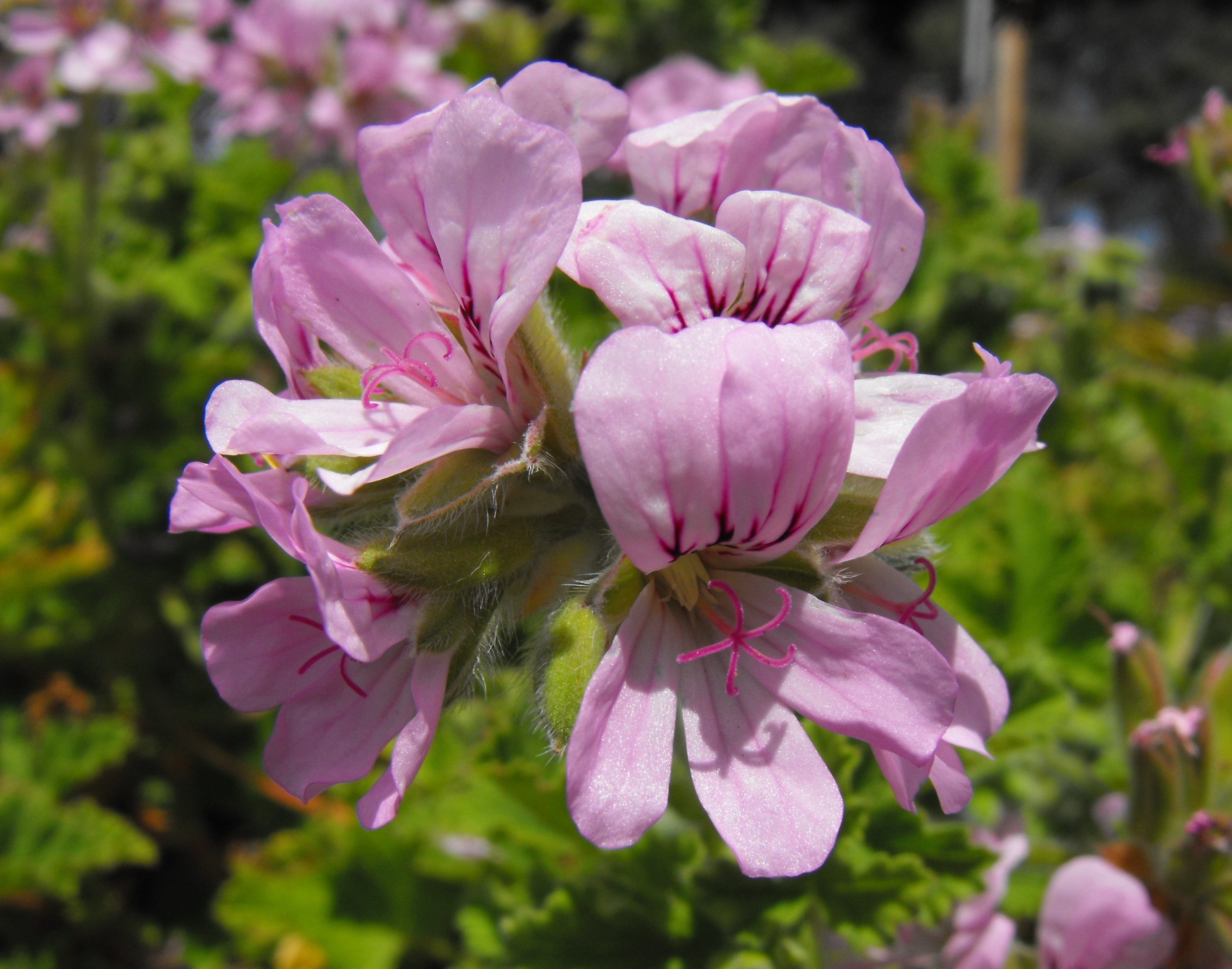 Pelargonium 'Attar of Roses' at the San Diego Botanic Garden in Encinitas, California, USA. Identified by sign.